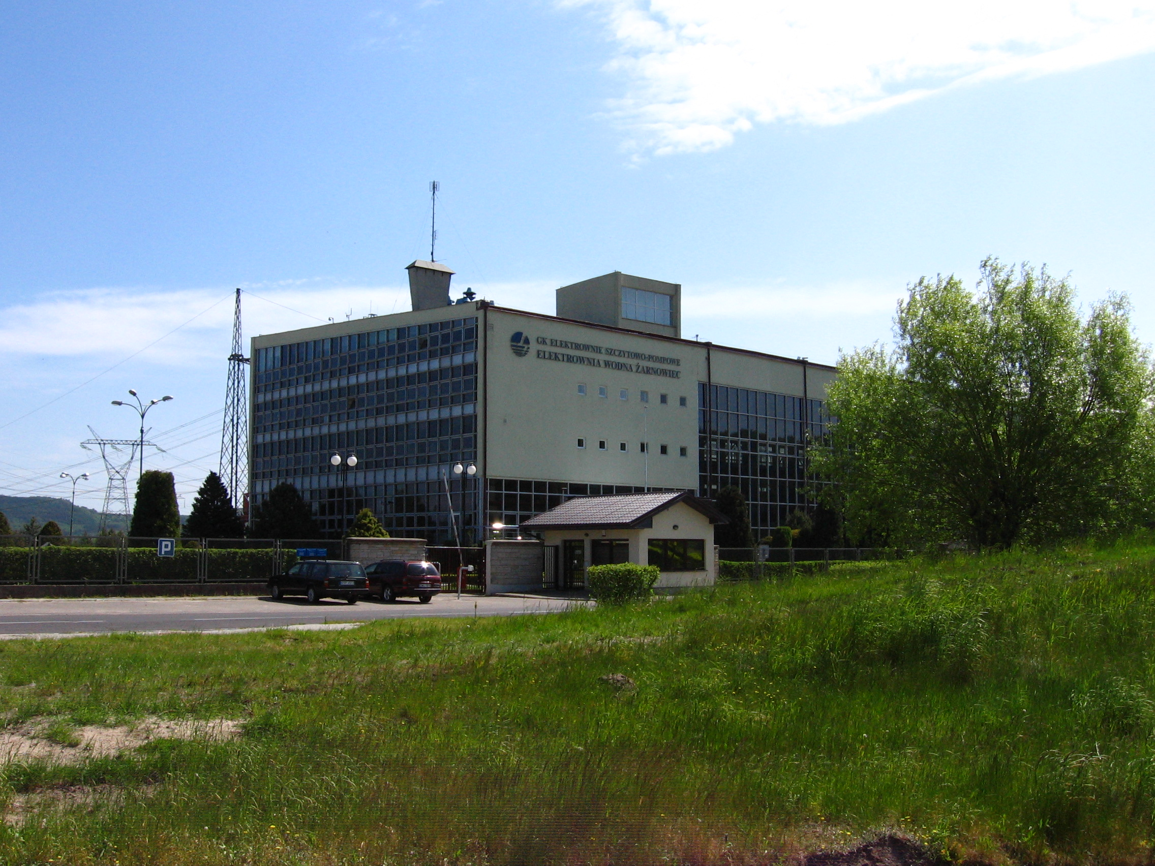 Żarnowiec pumped-storage station